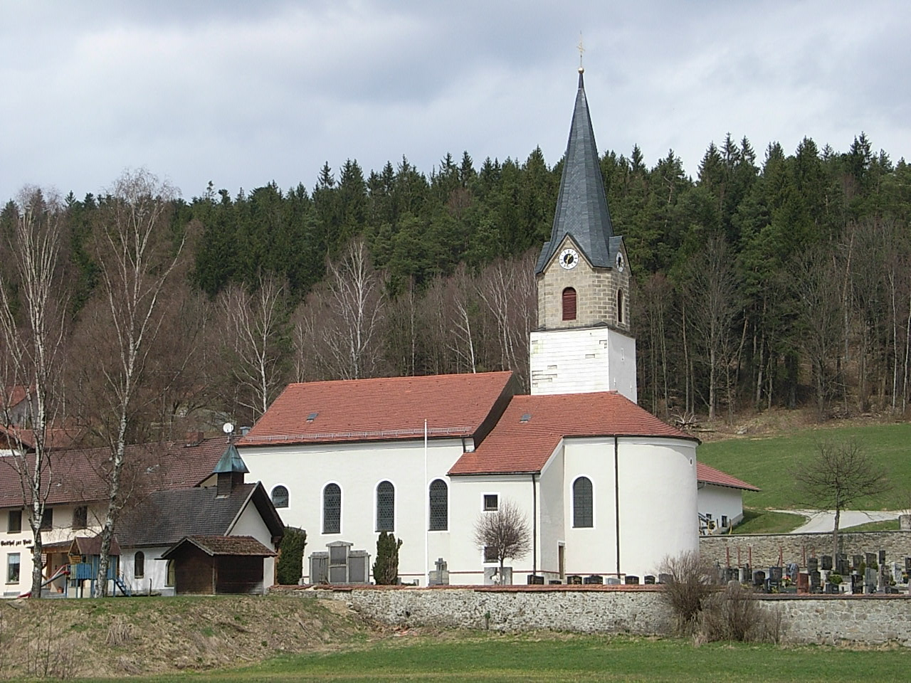 Achslach, St Jacob's Parish Church from south-east.